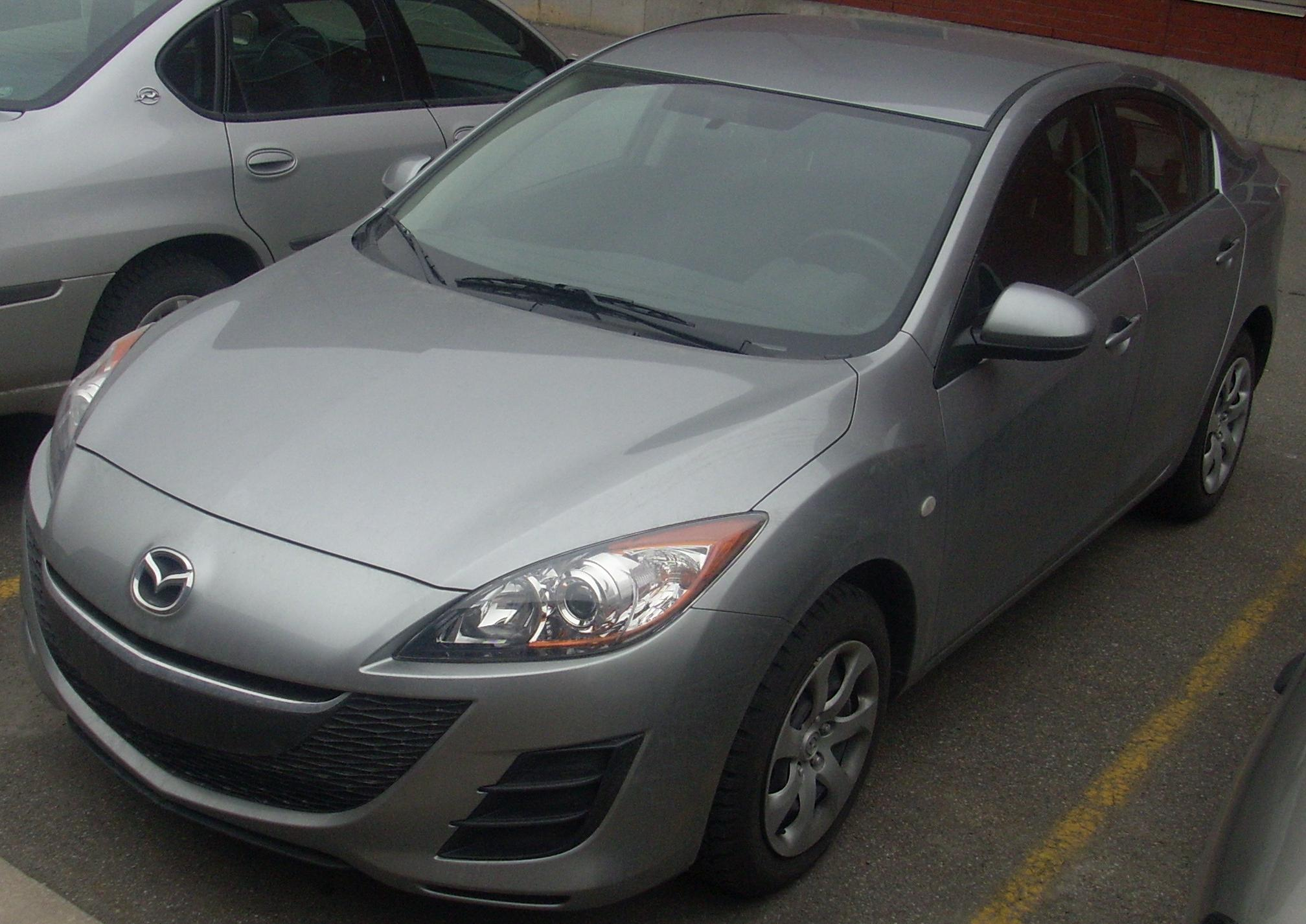 2010 Mazda3 photographed in Pointe Claire, Quebec, Canada